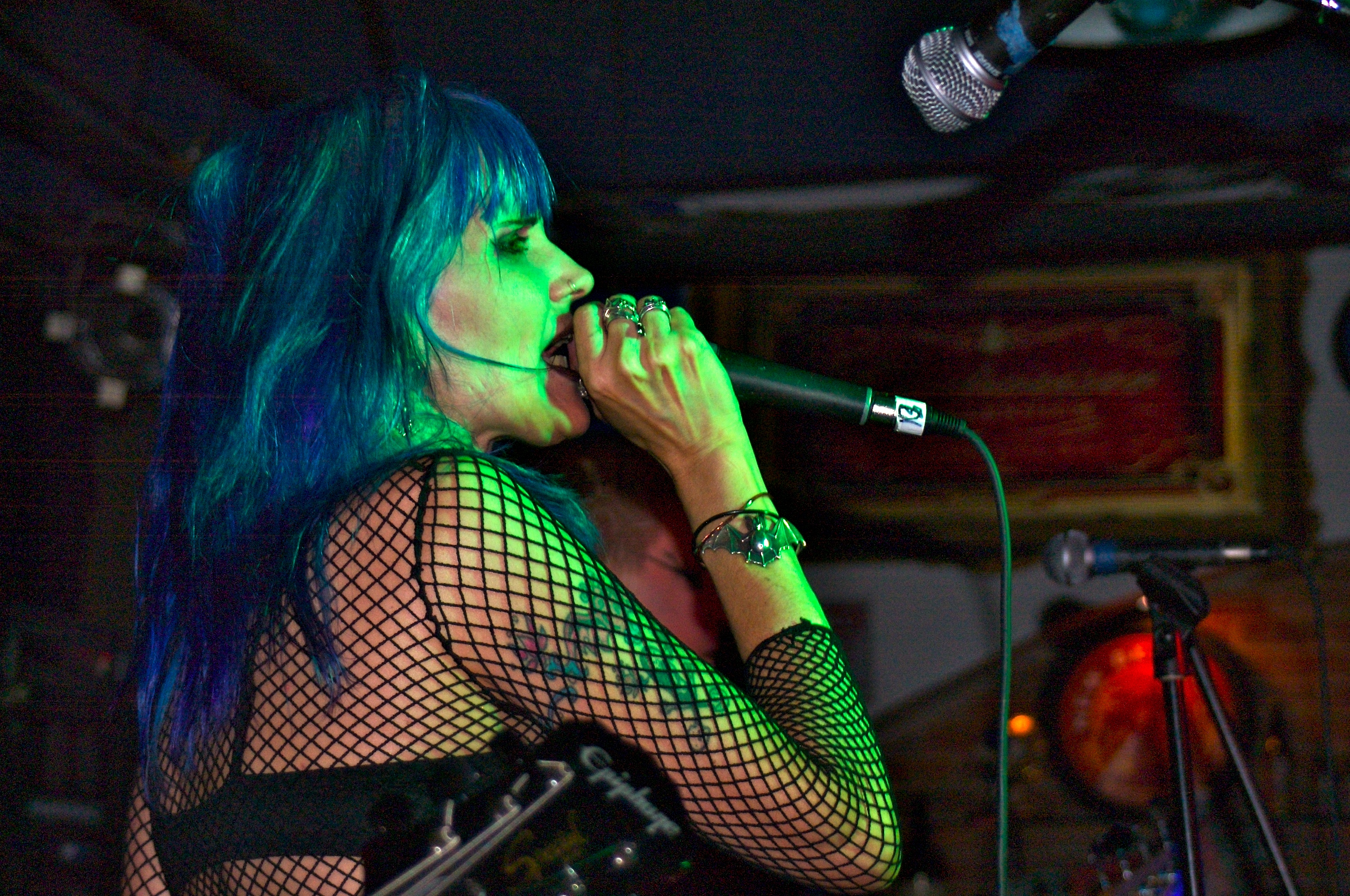 Dinah Cancer, vocalist for death rock band 45 Grave, at Bats over Broadway, Blue Cafe, Long Beach, California, USA